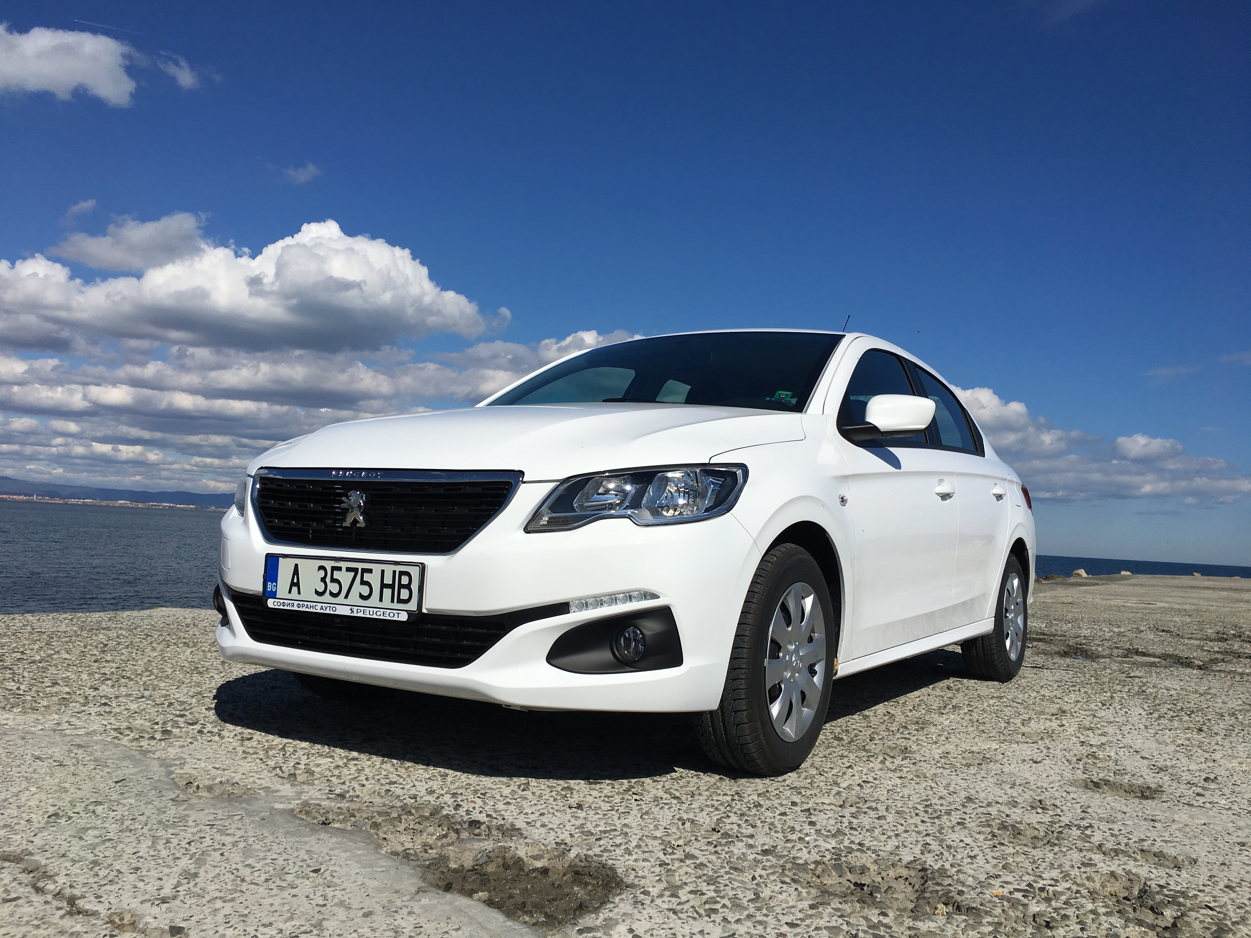 Peugeot 301 2017 Facelift seen in Bulgaria